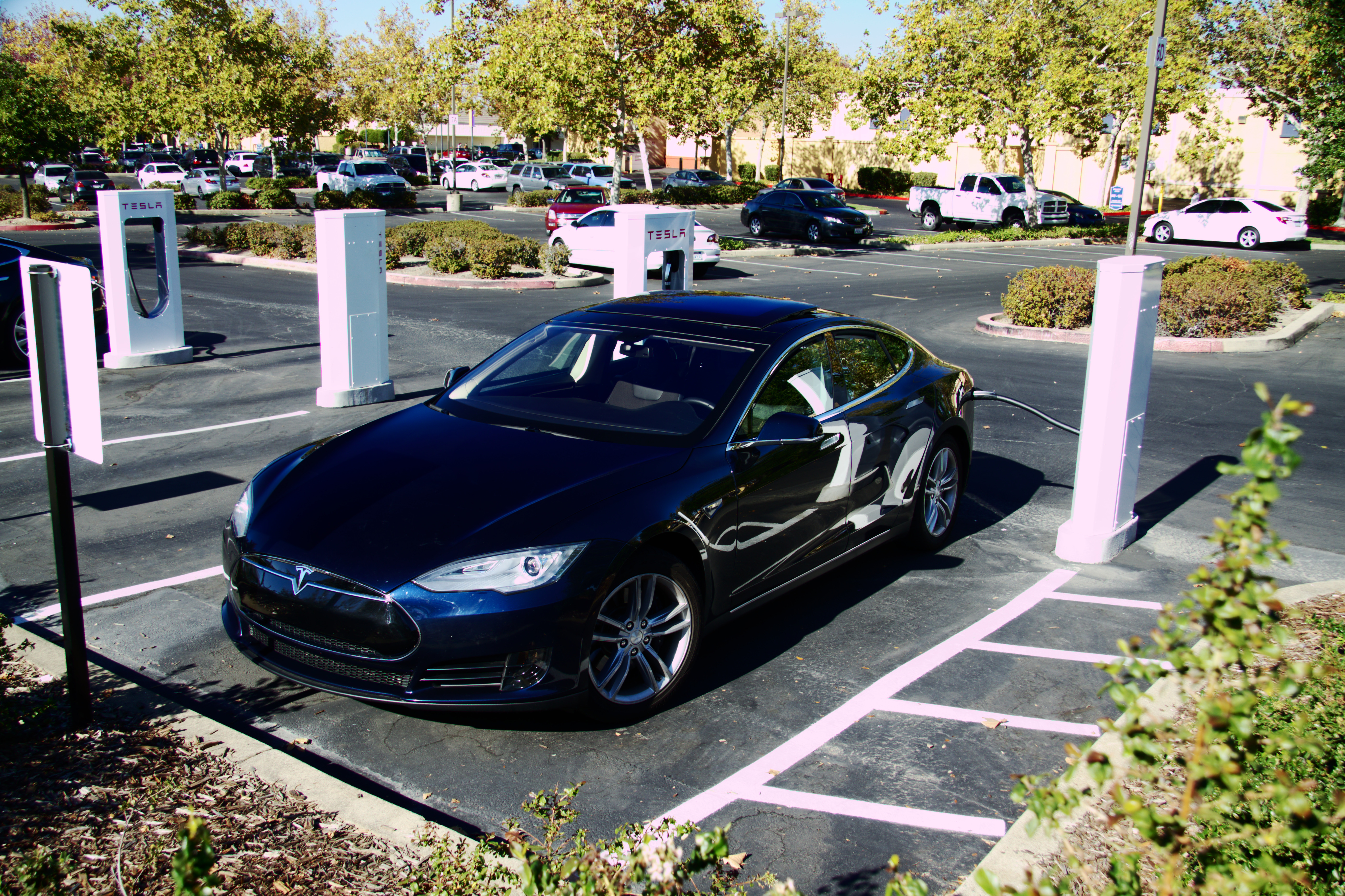 Tesla Model S using the Supercharger station located at Folsom Premium Outlets on Iron Point Road in Folsom, California.